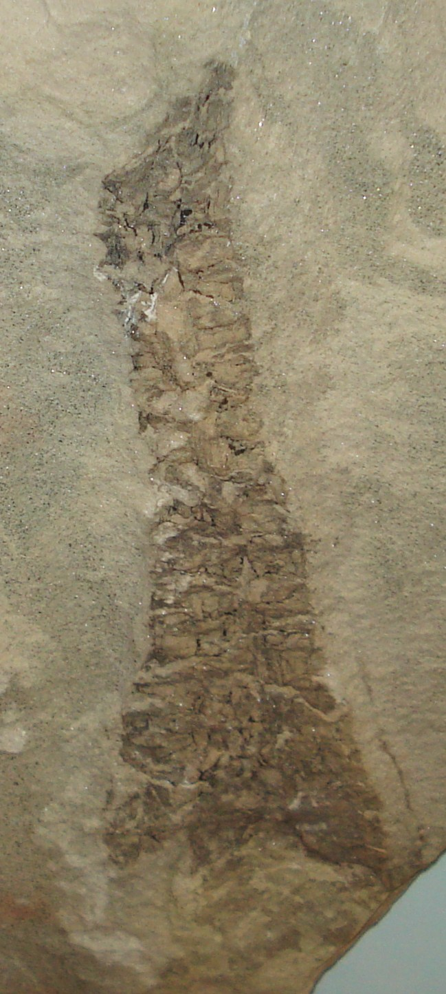 fossil of pleuromeia